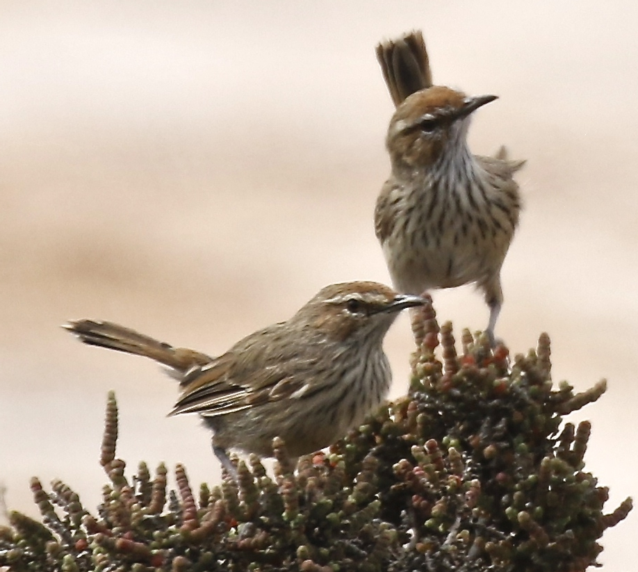 Kerang District, Lake Tyrell - Australia